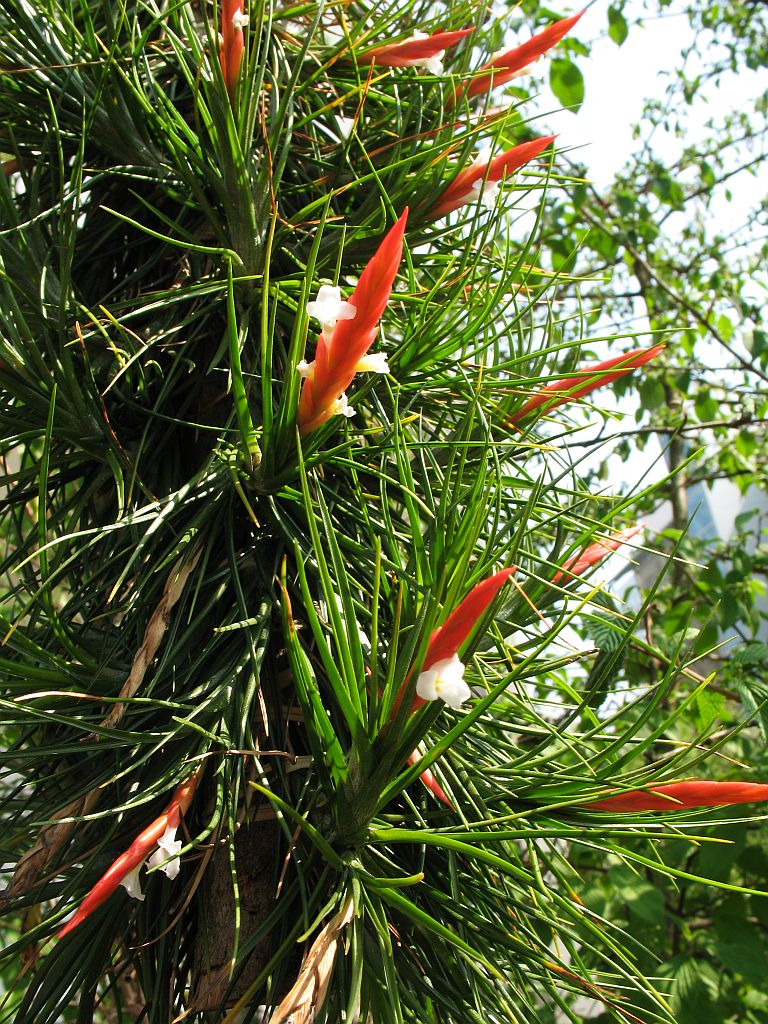 Tillandsia caulescens in cultivation at the Botanical Garden of Heidelberg, Germany.